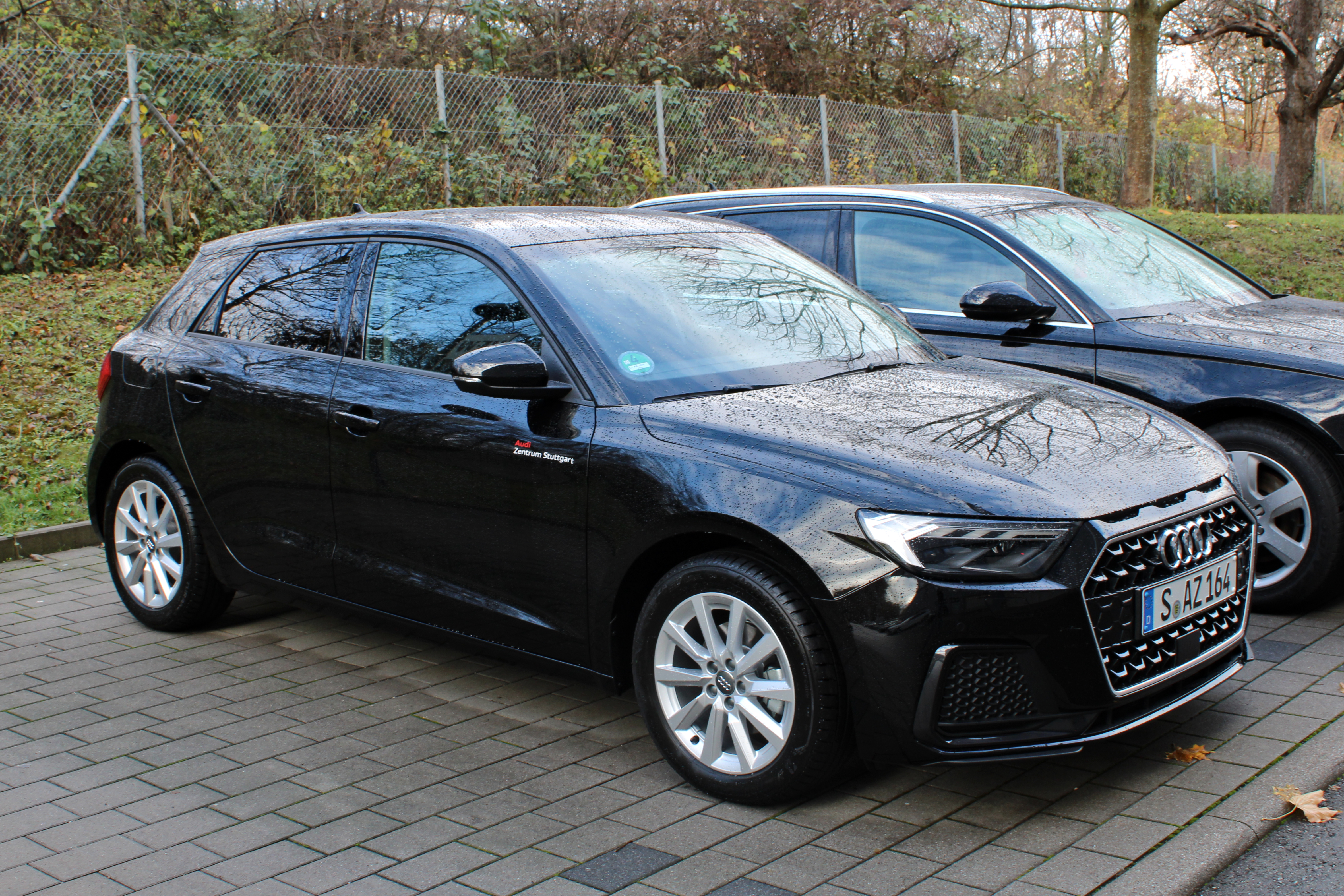 Audi A1 30 TFSI in Stuttgart-Vaihingen